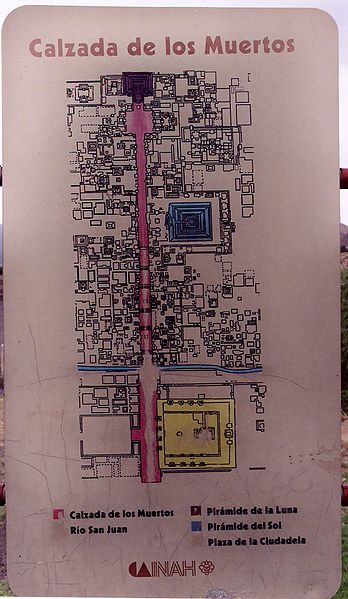 This is a picture of a tourist sign illustrating the extent of architectural design that went into elaborating this complex. Only partially unearthed, the Teotihuacan archeological preserve is still object of research and visitors are allowed to enjoy the exponates under open sky and also some covered areas where underground sites are unearthed... It is very impressive to see these pyramids, and to understand that they were built in few separate stages. As the diggings reveal, there are concentric walls and earthen mass sandwiched in between. Unfortunately, I do not have a picture to post of those findings. author: Asen Ranguelov date 27-29 May 2003